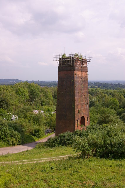 Betchworth limekiln. Managed by the Surrey Wildlife Trust, as an important bat roost.